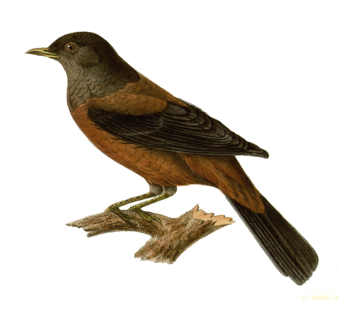 Turdus rubrocanus gouldi